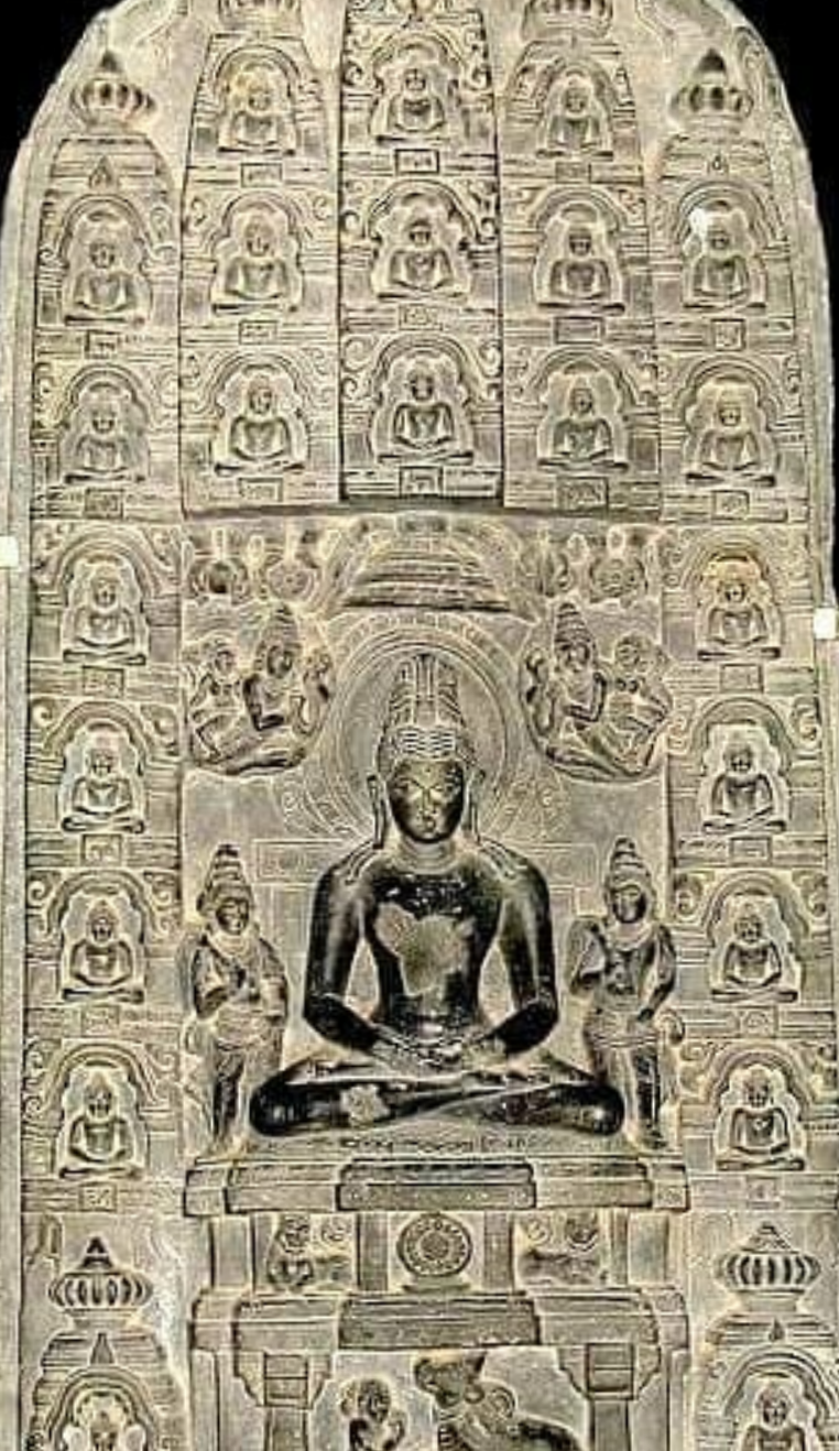 An ancient idol of first Jain Tirthankar Rishabhdev at the Bangladesh National Museum.